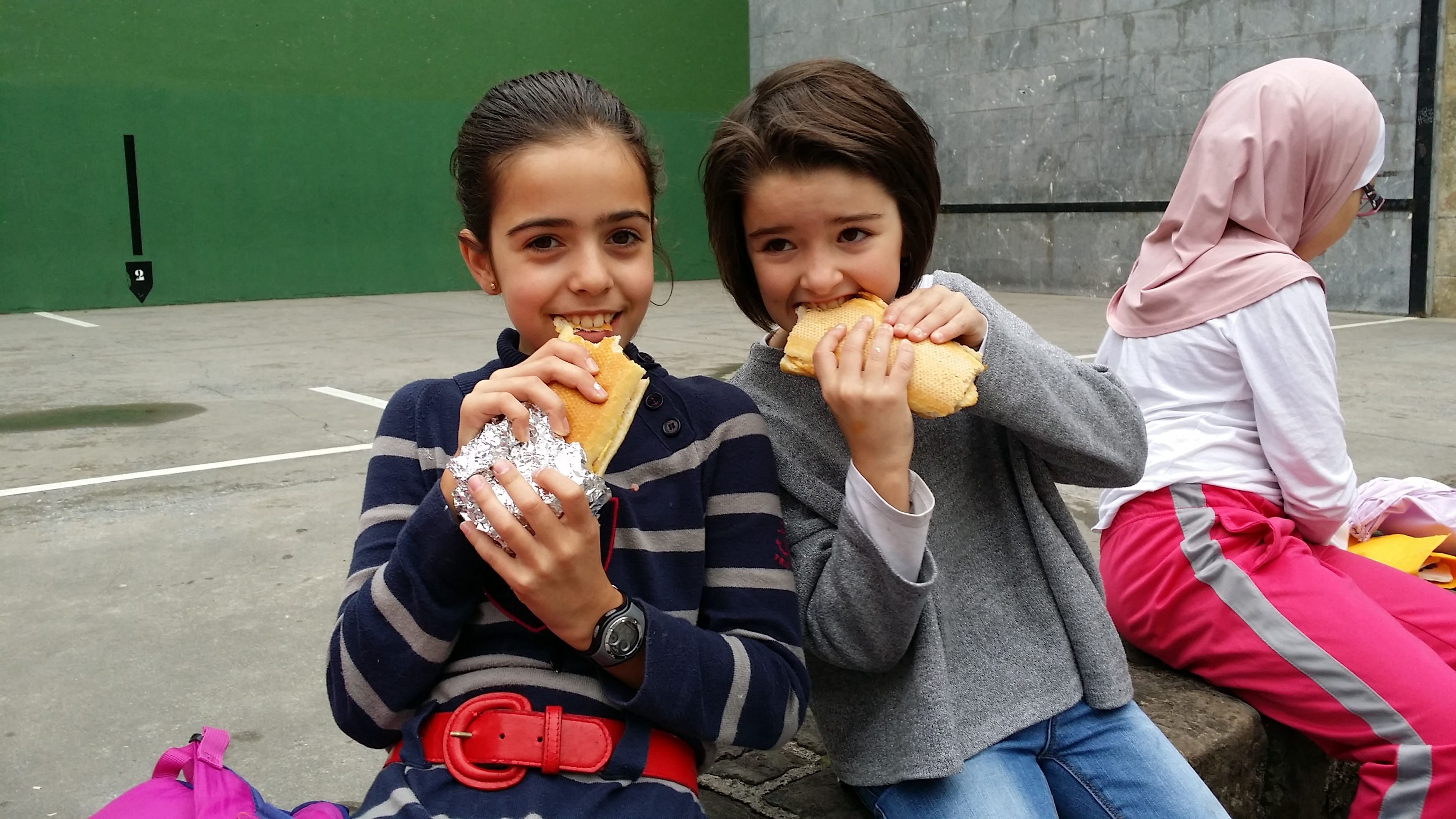 Children eating sandwiches